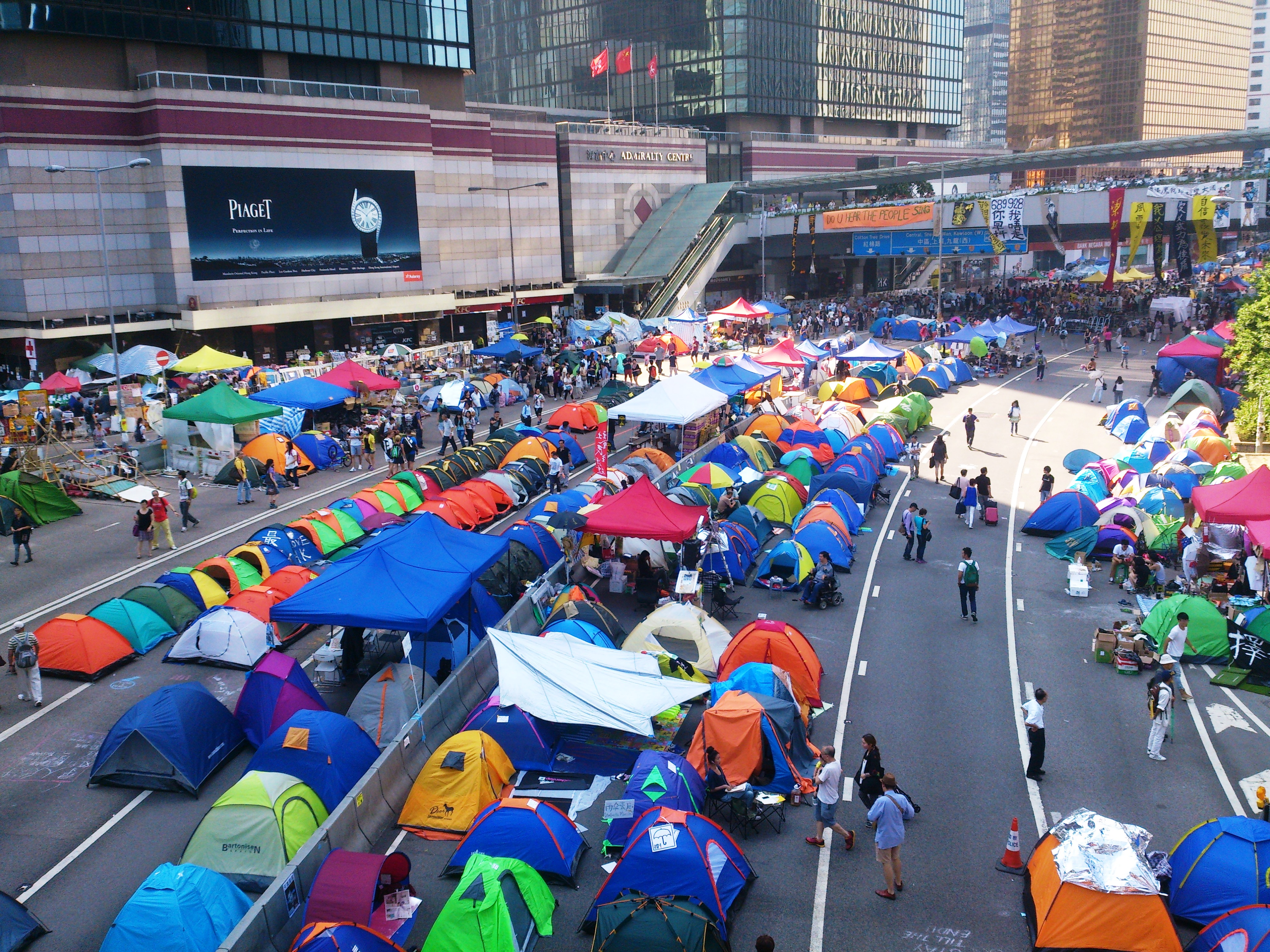 Tents on Harcourt Road outside Central Government Offices on 2014-10-18 (4)